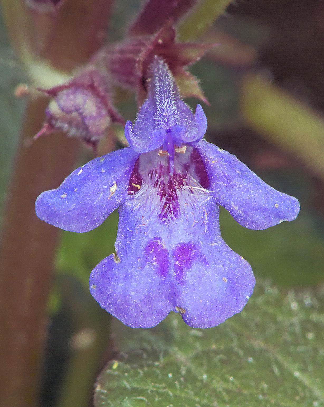 Glechoma hederacea flower